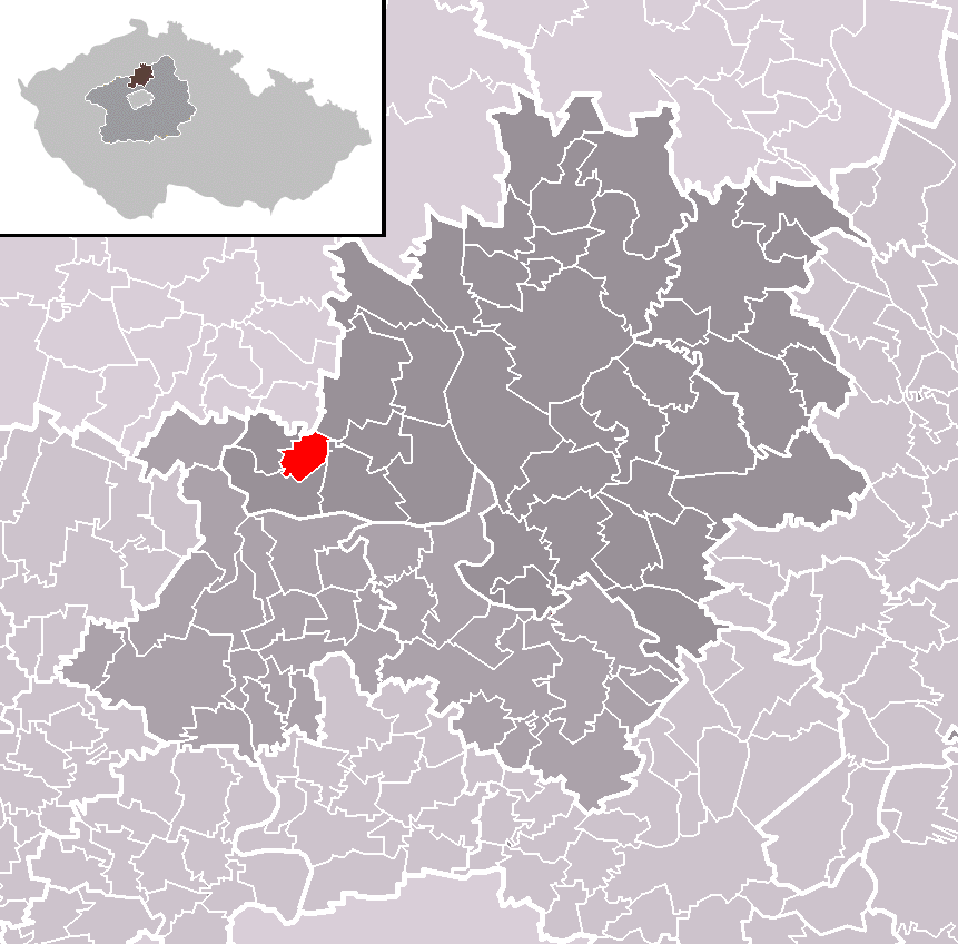 Location of Spomyšl municipality within Mělník District and administrative area of Mělník as a Municipality with Extended Competence.